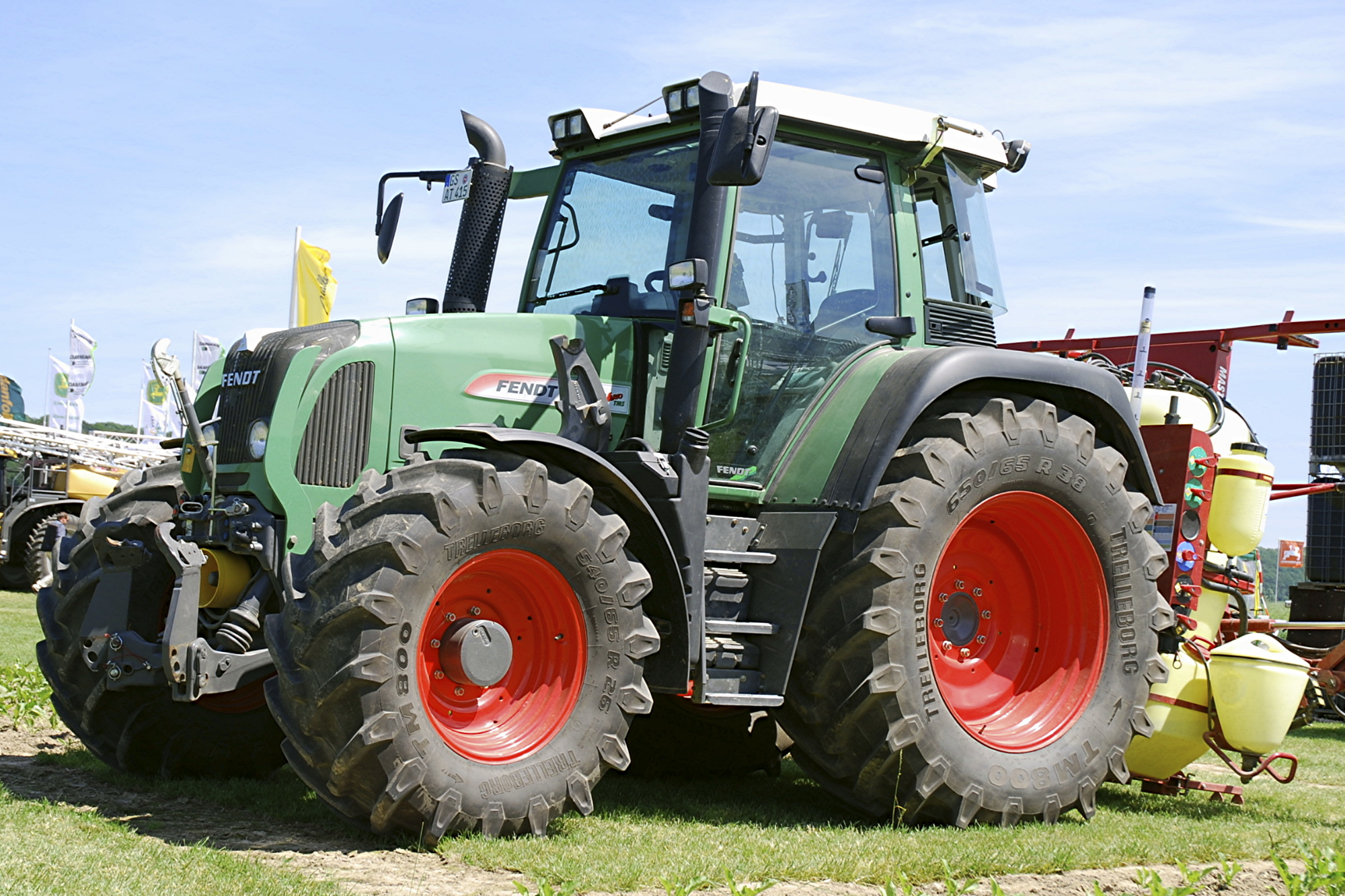 Fendt 415 Vario TMS tractor with Hardi Master liftmounted field sprayer; DLG field days 2010, Gut Bockerode, Springe-Mittelrode, Lower Saxony, Germany.